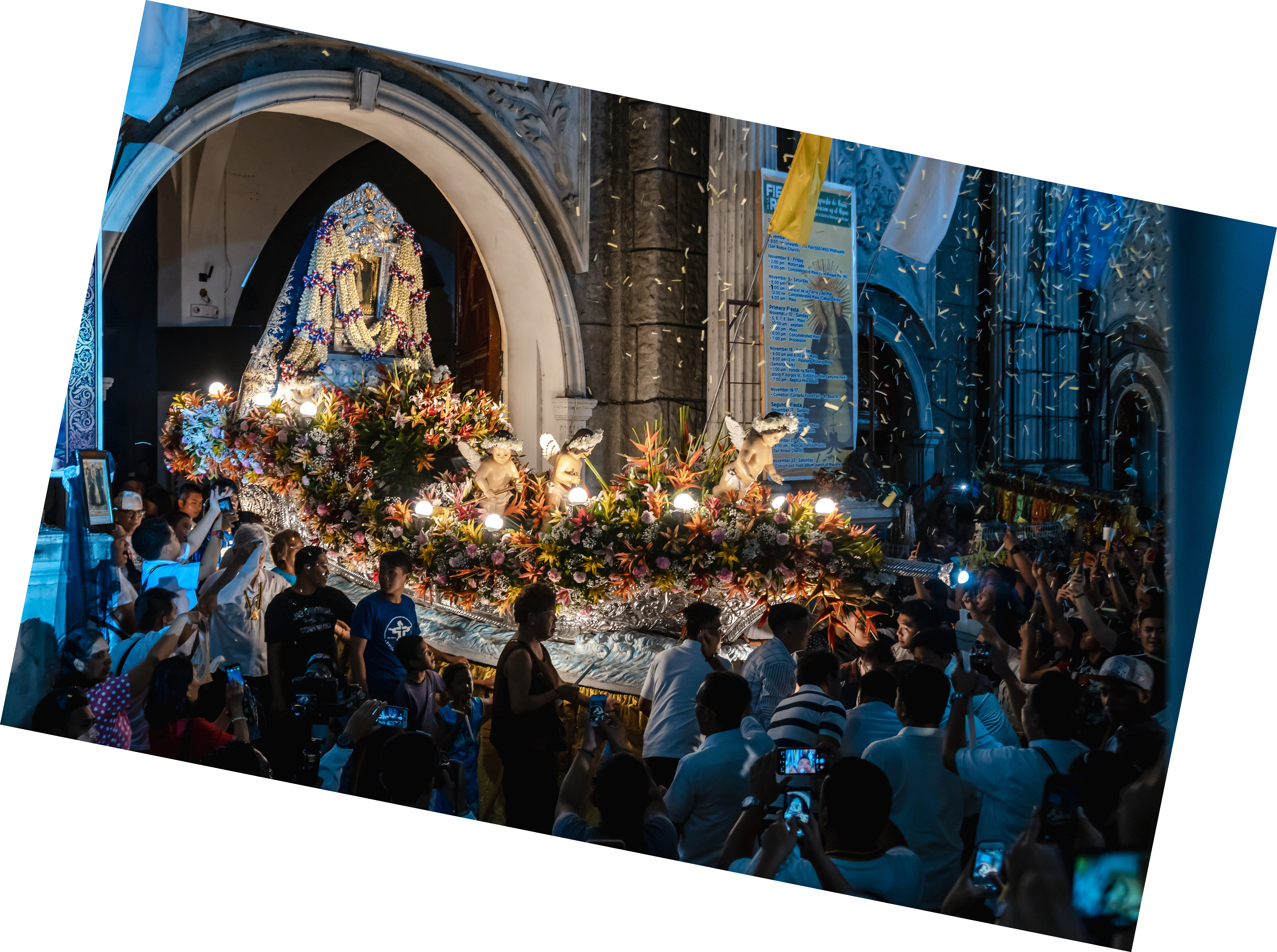 2019 2nd Fiesta Procession of Our Lady of Solitude of Porta Vaga